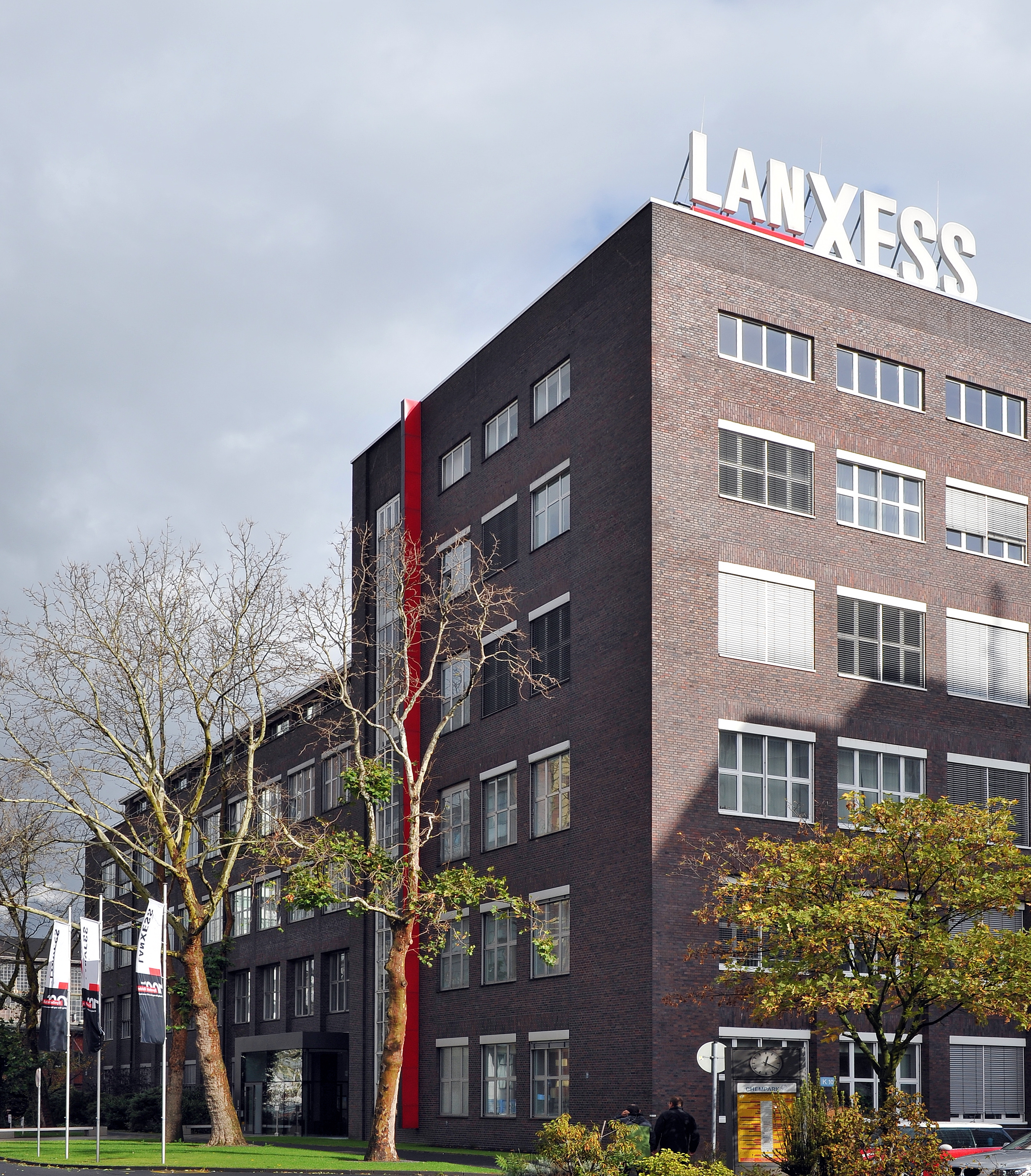 Former Headquarters of LANXESS in Leverkusen, Germany